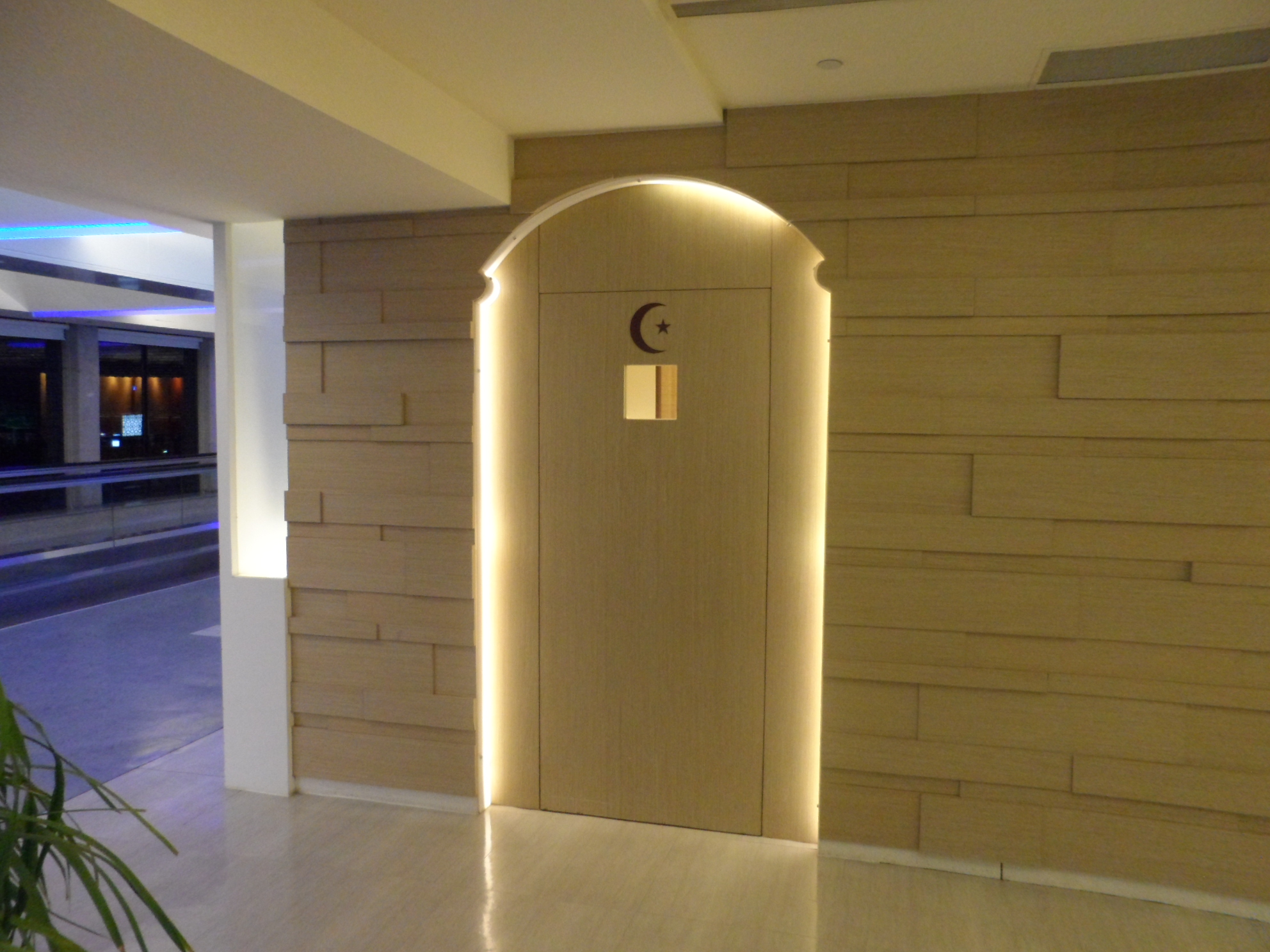 Muslim Prayer Room - Taoyuan International Airport Terminal 1